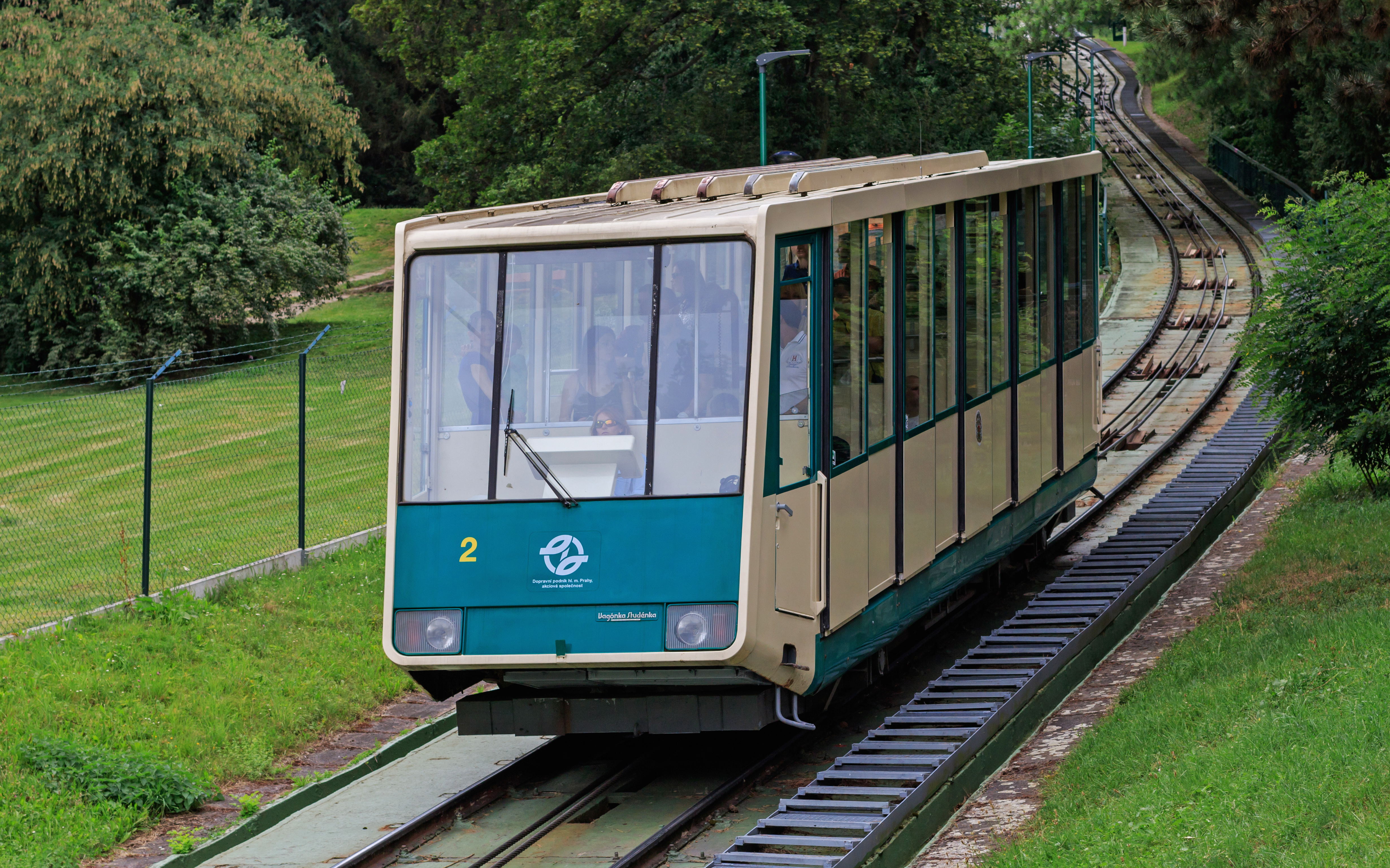 Car of Petřín Funicular near lower station in Prague (Czech Republic)